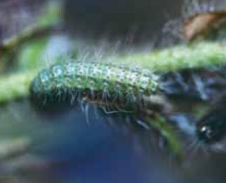 Neotropical species of the family Pterophoridae, part II. Zool. Med. Leiden 85